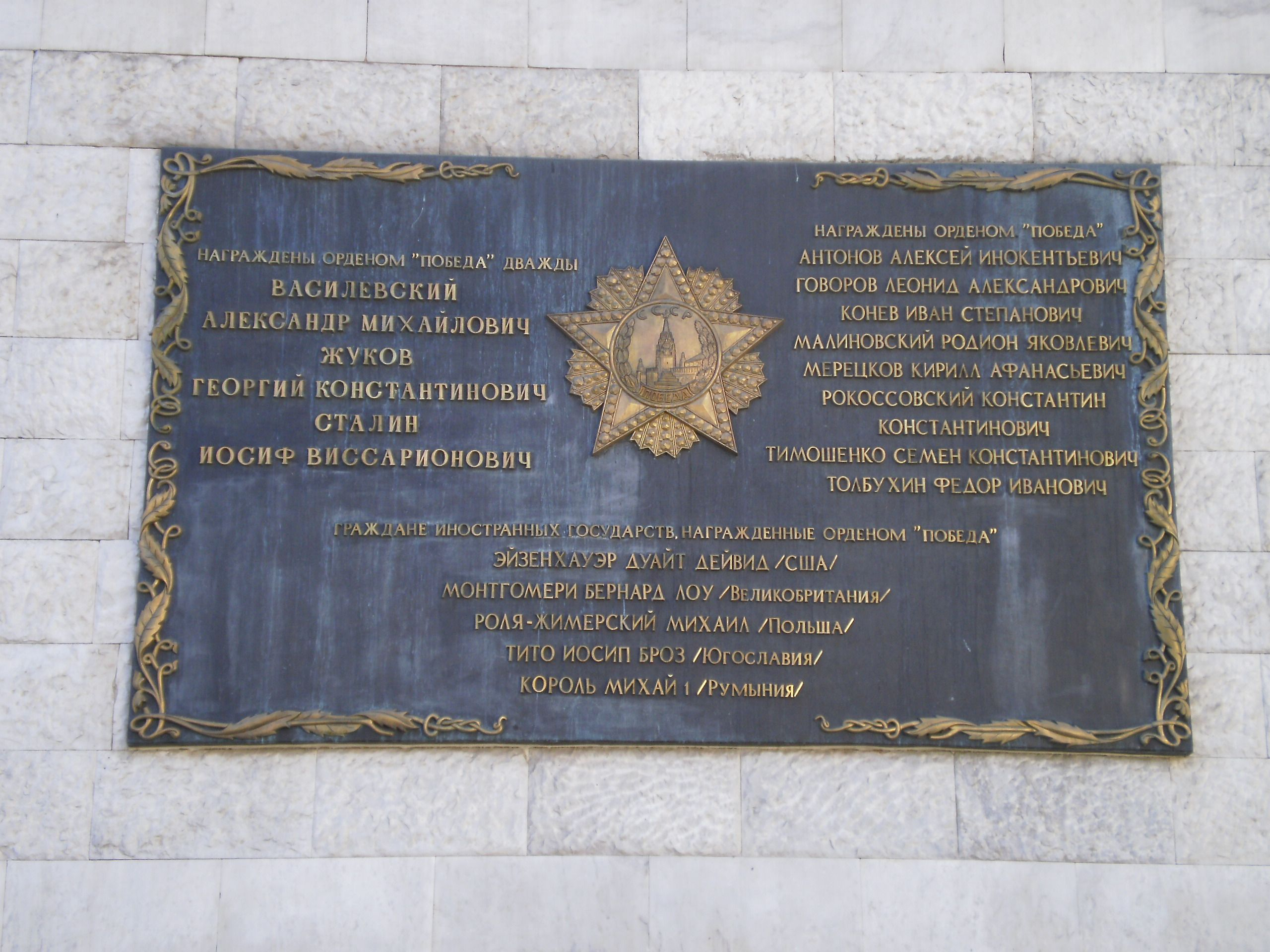 A plate in the Moscow Kremlin listing all the recipients of the Order of Victory. To the left, the double recipients (Vasilievsky, Zhukov, Stalin); to the right, the single recipients (Antonov, Govorov, Konev, Malinovsky, Merechkov, Rokossovsky, Timoshenko, Tolbukhin); below the foreign recipients (Eisenhower, Montgomery, Rolya-Zhimersky, Tito, King Michael of Romania)